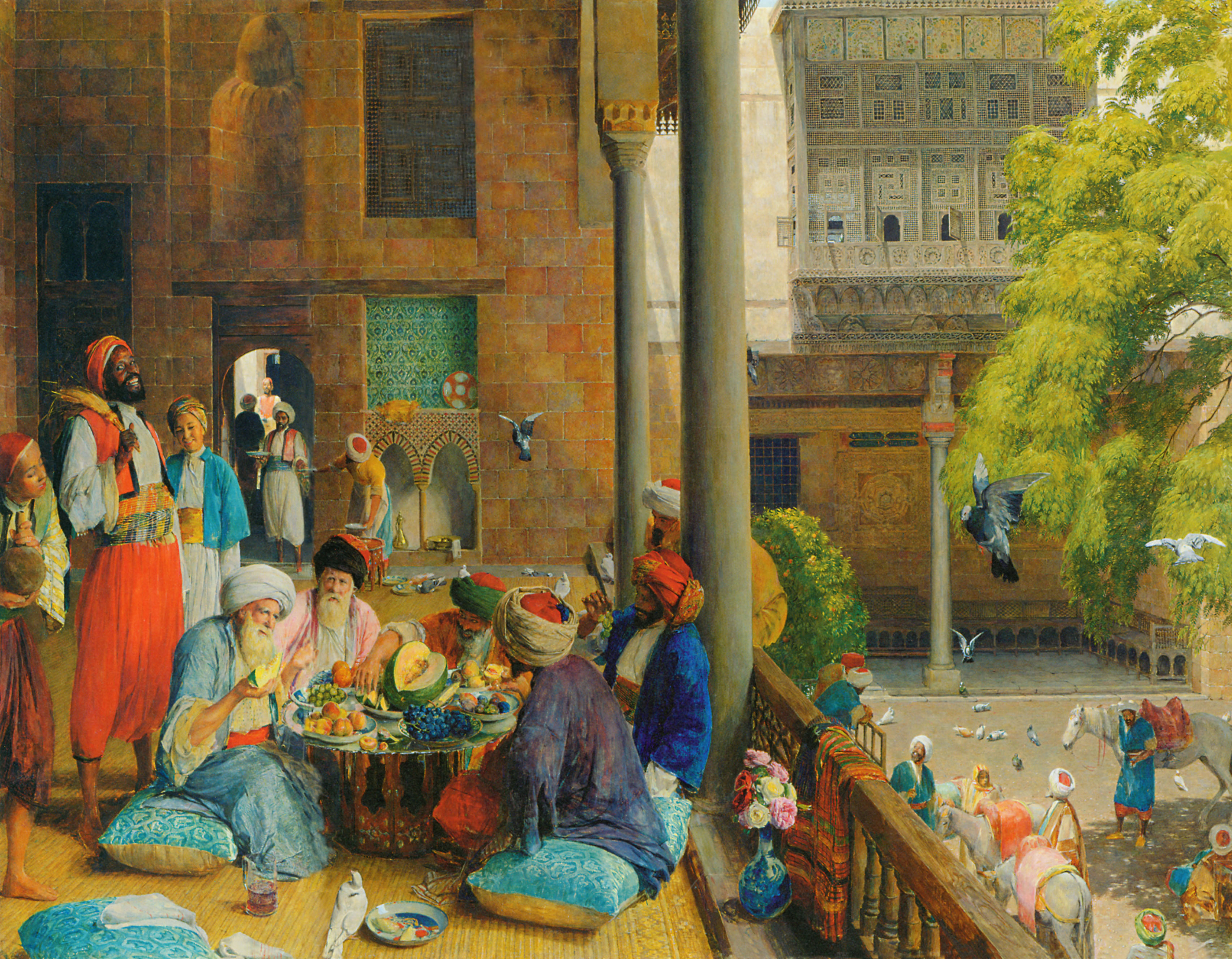 The midday meal, Cairo, oil on canvas, 88x114 cm